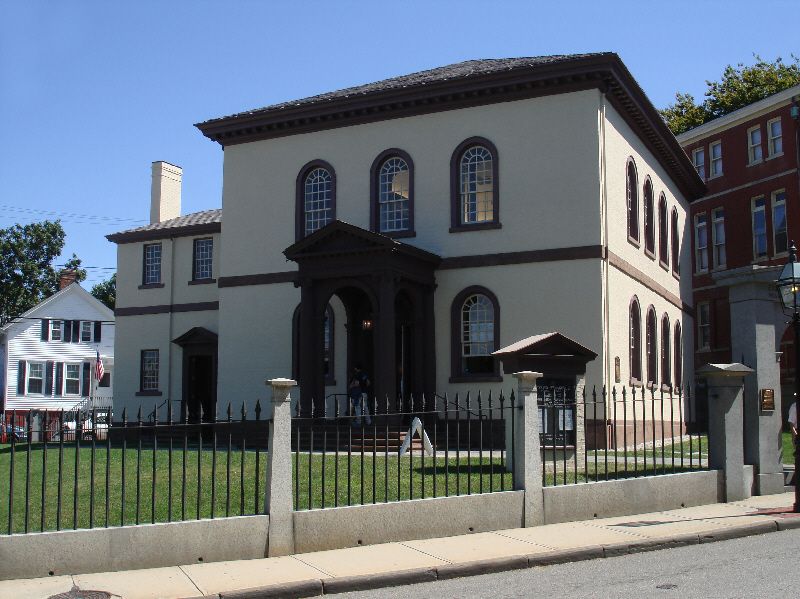 Touro Synagogue in Newport, Rhode Island (oldest preserved synagogue in the United States, National Monument)